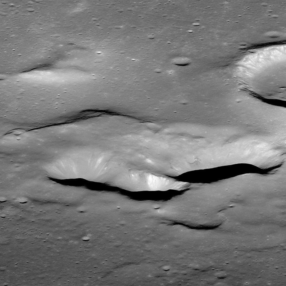 An early morning view looking east-to-west from an altitude of 86 km across the southern portion of the Lassell Massif, an irregularly shaped series of hills and steep-walled depressions. North is to the right; oblique LROC NAC mosaic M1108311369, reduced for web-browsing [NASA/GSFC/Arizona State University].